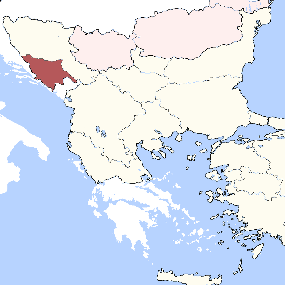 Herzegovina Eyalet in 1850s. Tributary states of the Ottoman Empire are shown in pink. According to the information of this map: [1]